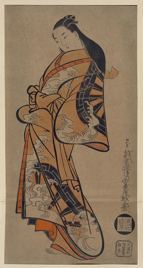 Title: Nami ni goshoguruma moyō no tachi bijin Abstract/medium: 1 print : woodcut, color.